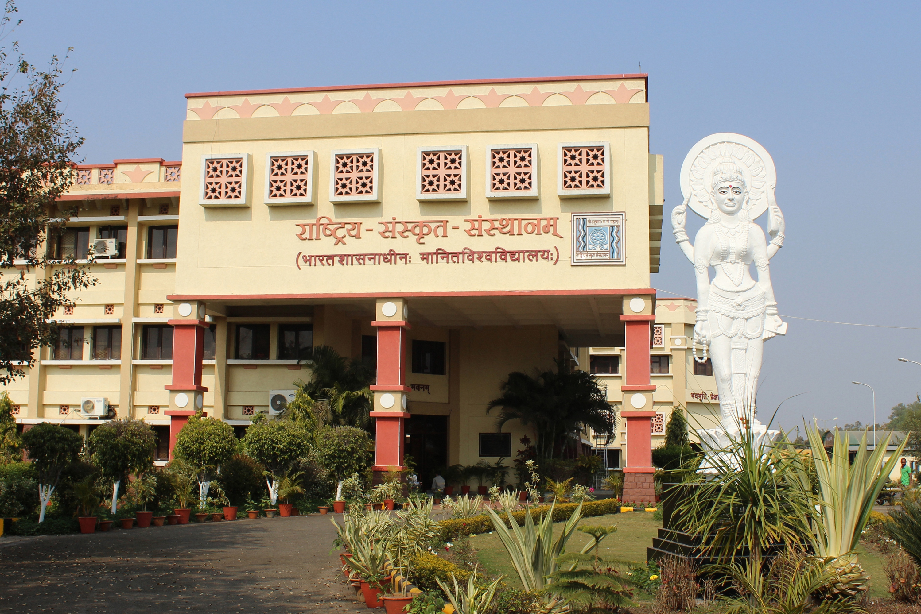 Rashtriy Sanskrit Sansthanam Bhopal Main Building